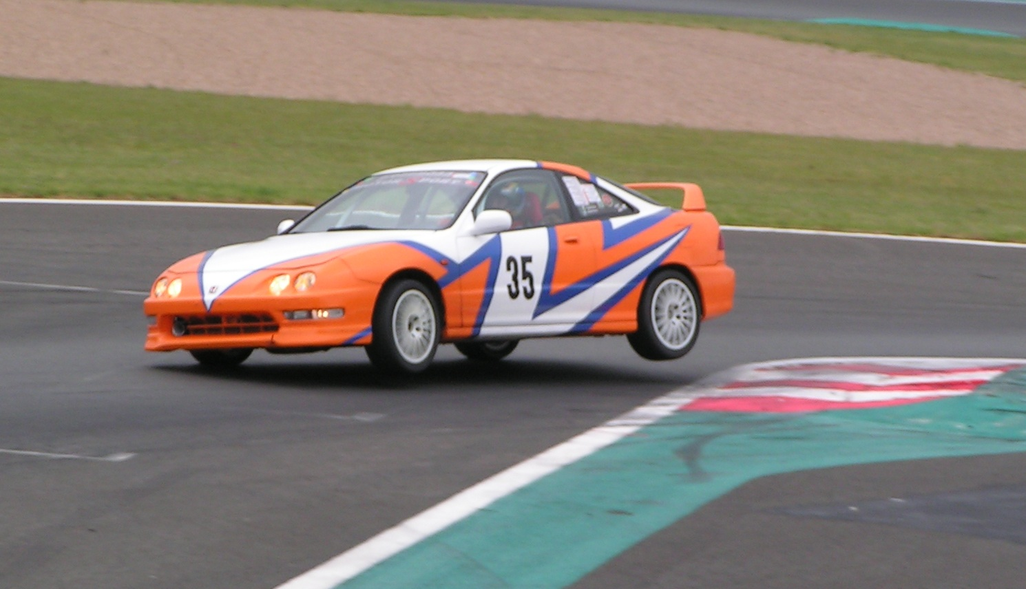 Honda Integra "flying" over the last chicane of french racetrack "Magny-Cours"